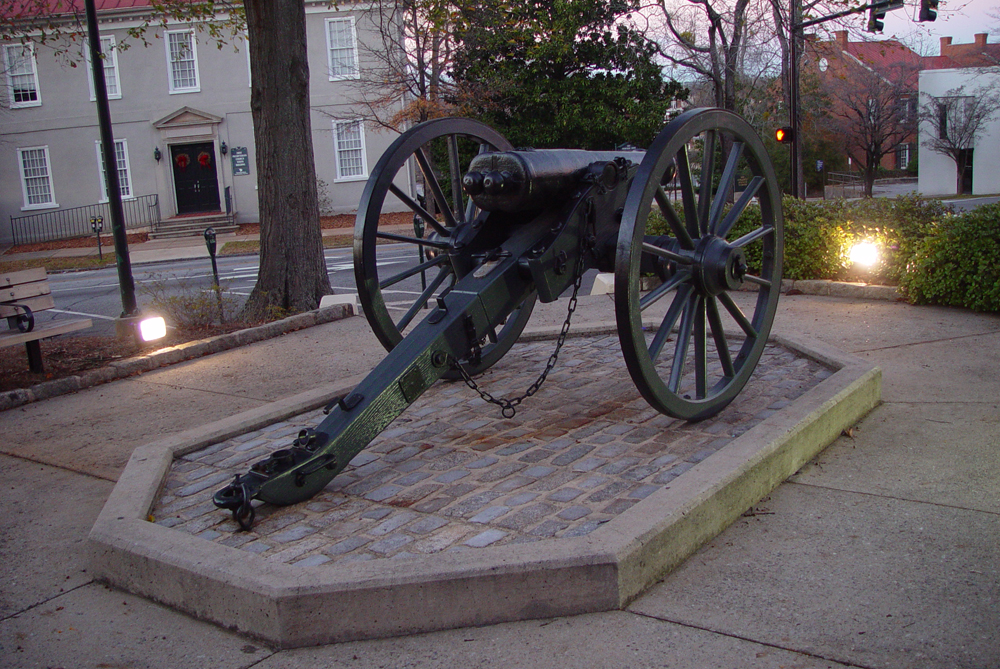 A view from behind the double-barreled cannon in Athens, Georgia, United States.